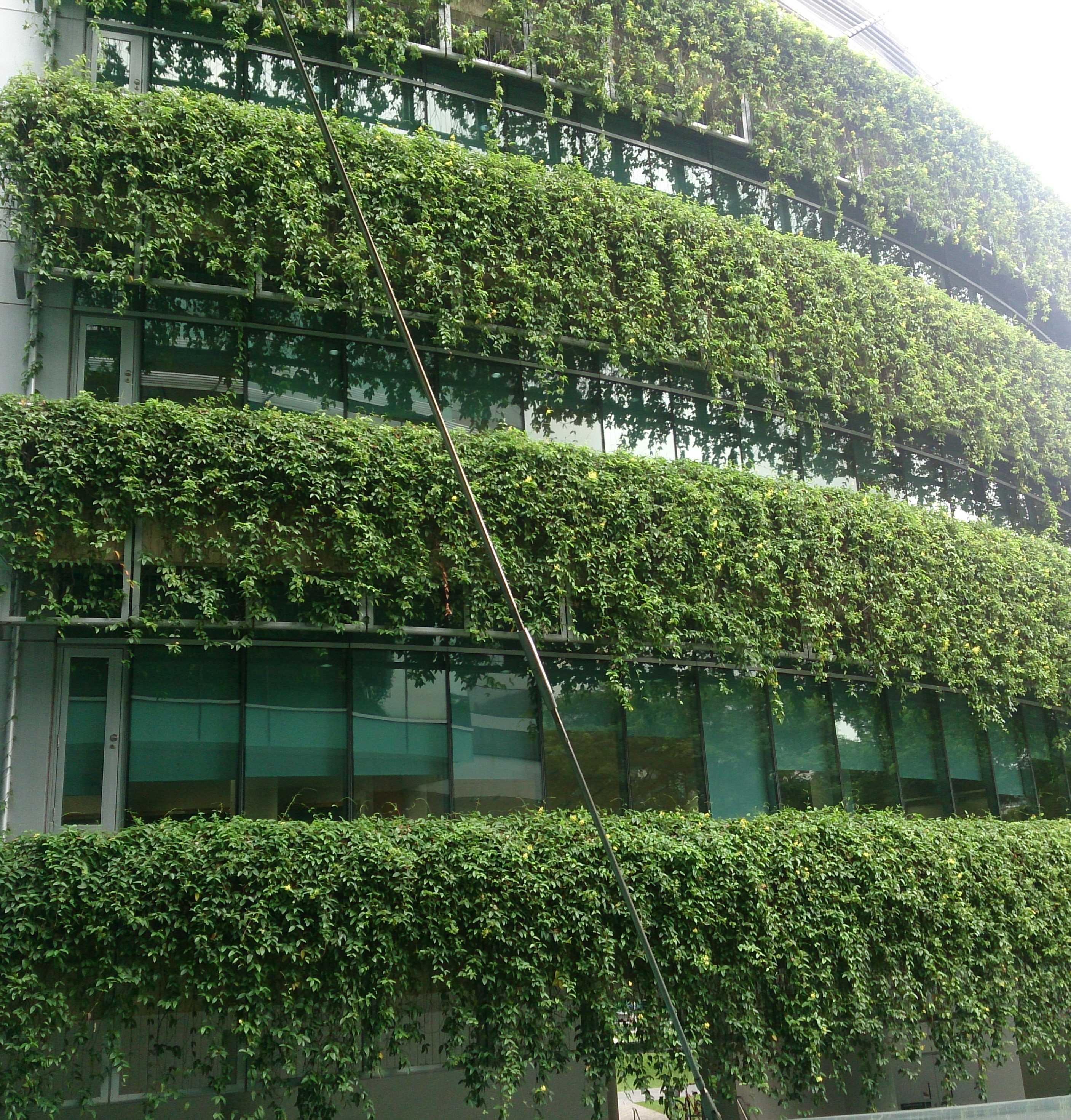 A green wall of the Li Ka Shing Library, Singapore Management University.